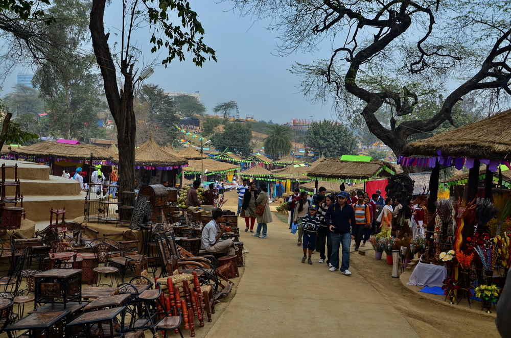 at surajkund mela in Faridabad, India